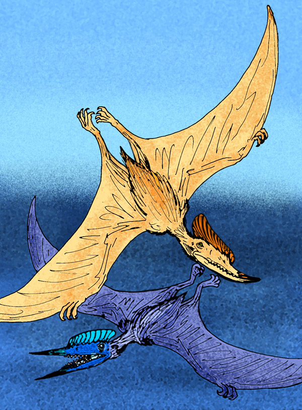 A reconstruction of the pterosaurs Dsungaripterus weii and Noripterus complicidens, (C) Stanton F. Fink